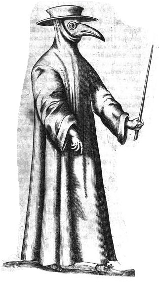 Thomas Bartholin's illustration of a beak doctor